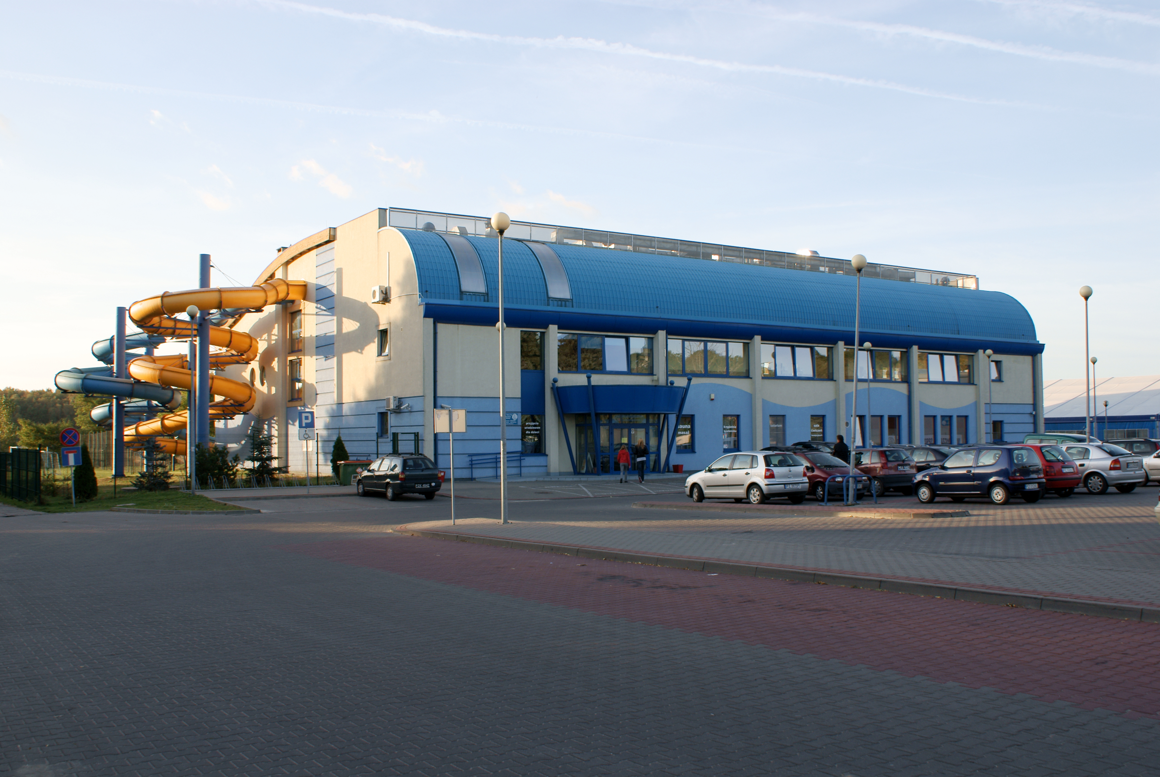 Swarzędz Sport Center "Wodny Raj"